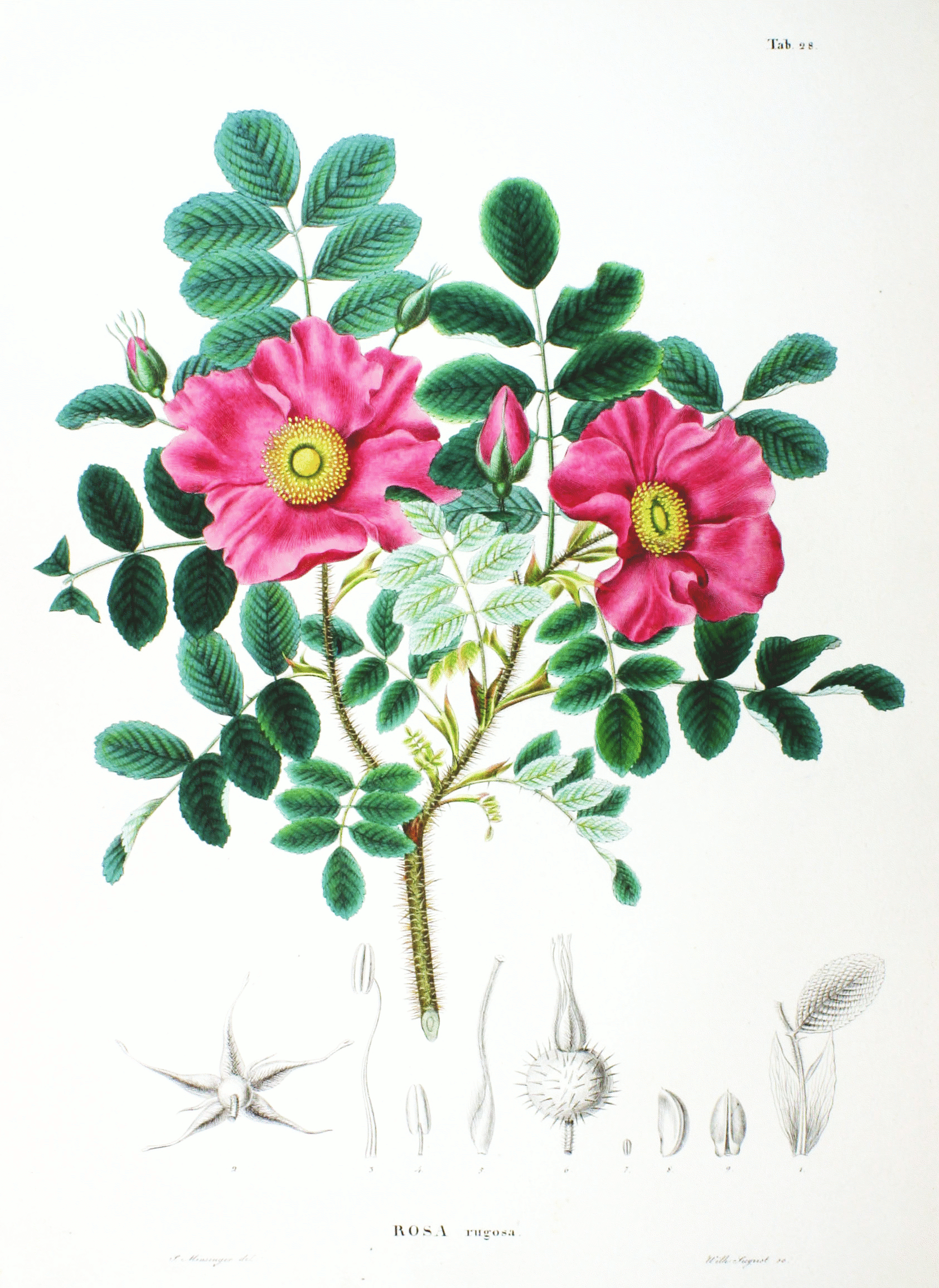 Plate from book